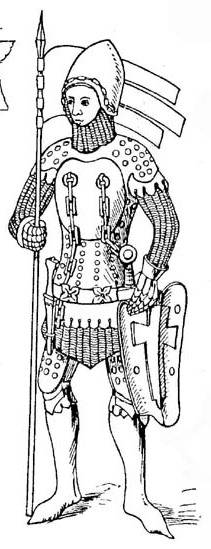 brigandine with plastron